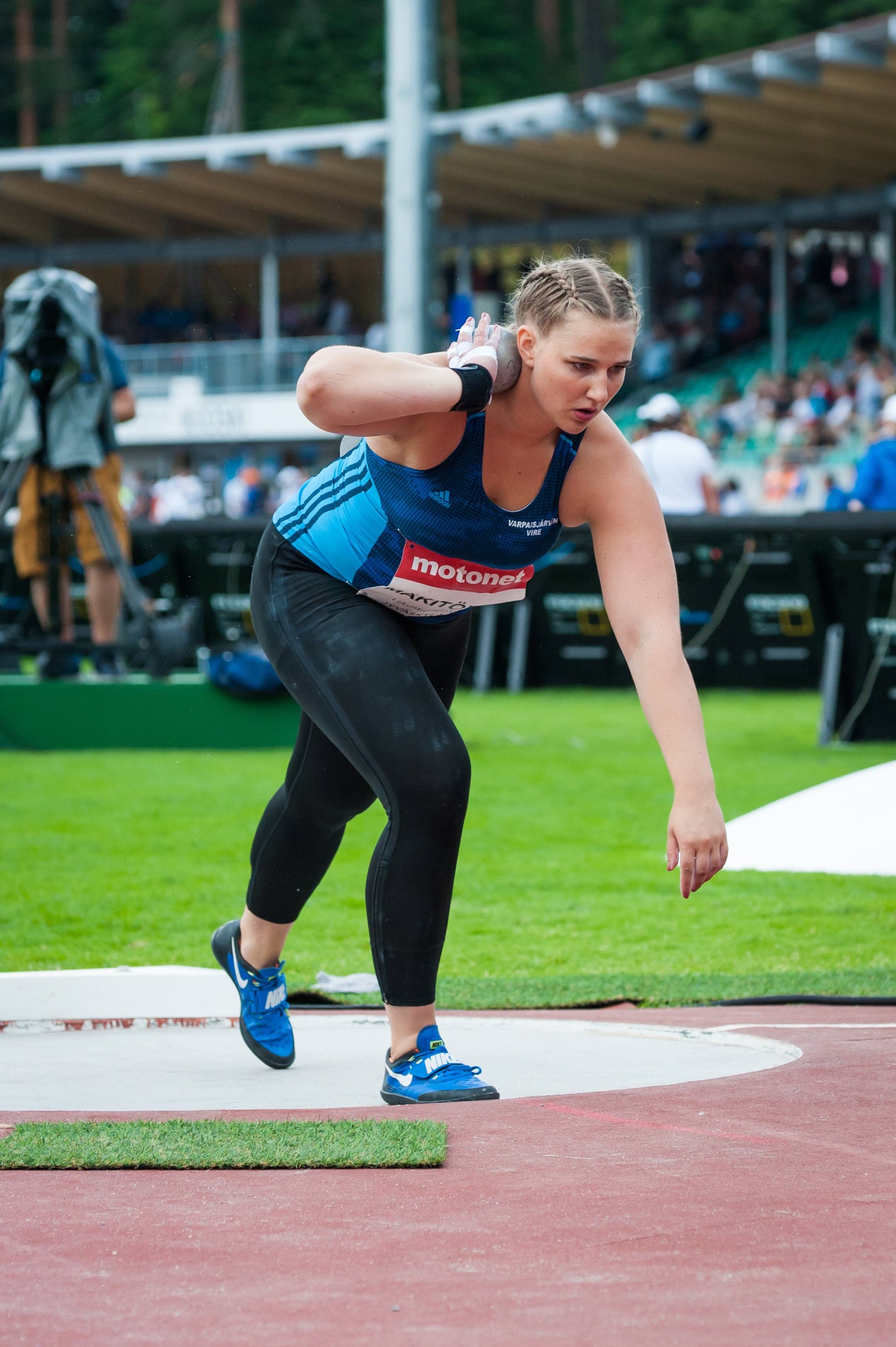 Women's shot put competition at the 2018 Kalevan Kisat, the Finnish championships in athletics, in Jyväskylä, Finland.